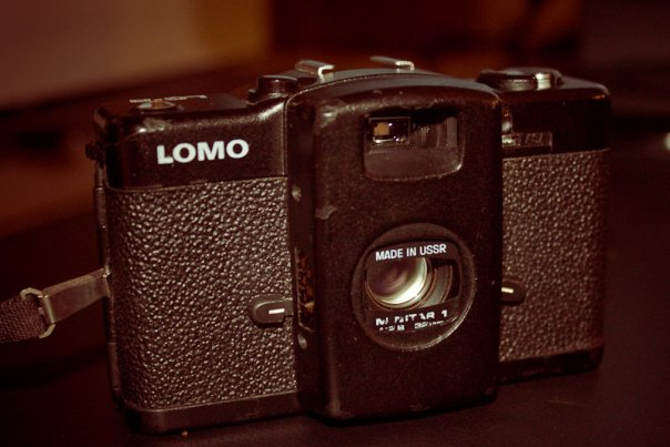 A USSR lomo LC-A